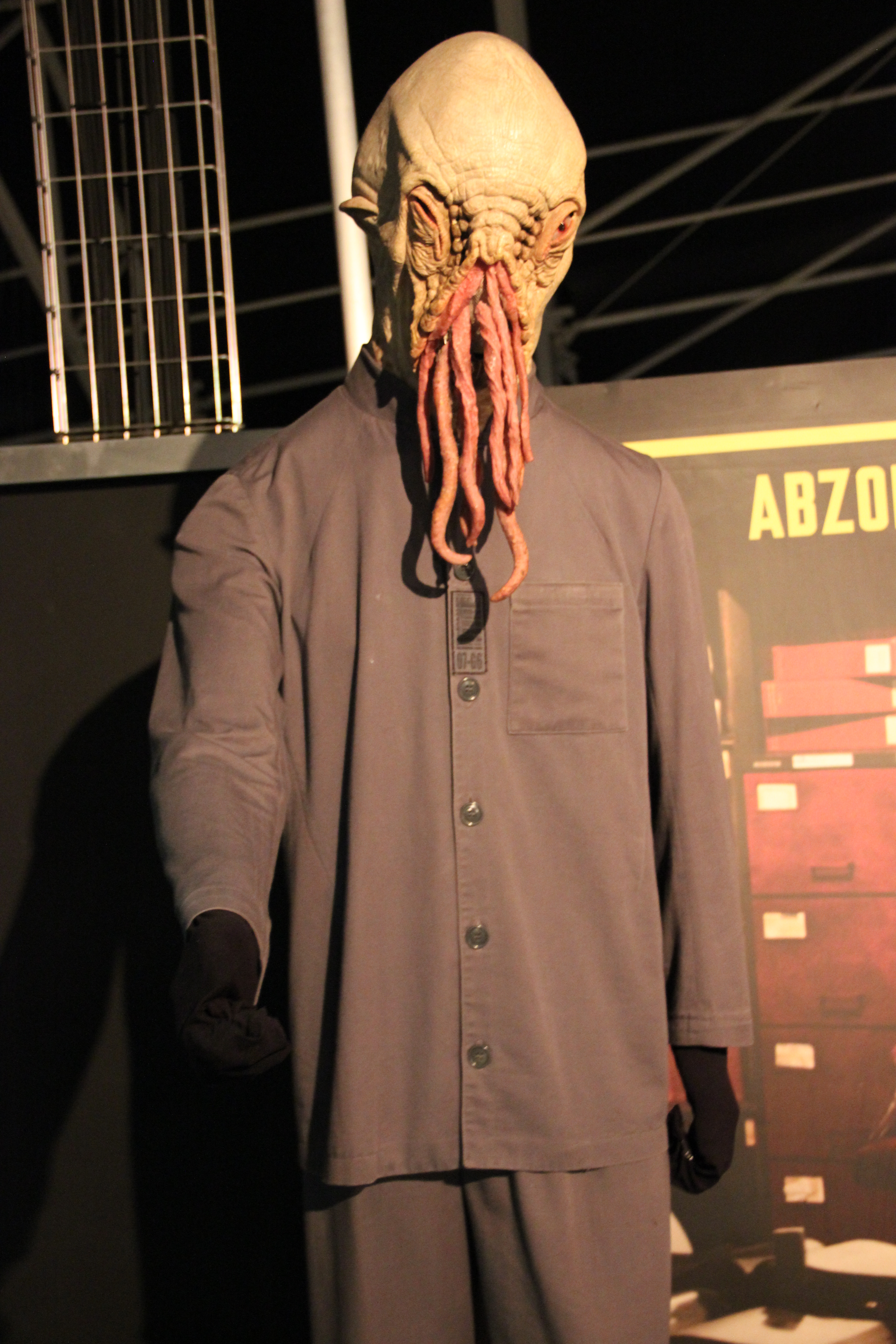 Ood Doctor Who Experience